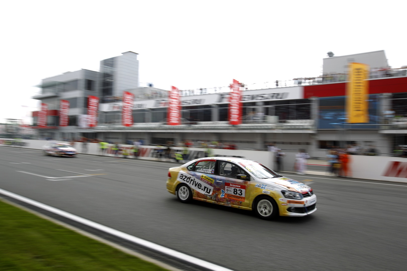 VW Polo Sedan, 2017, MRW